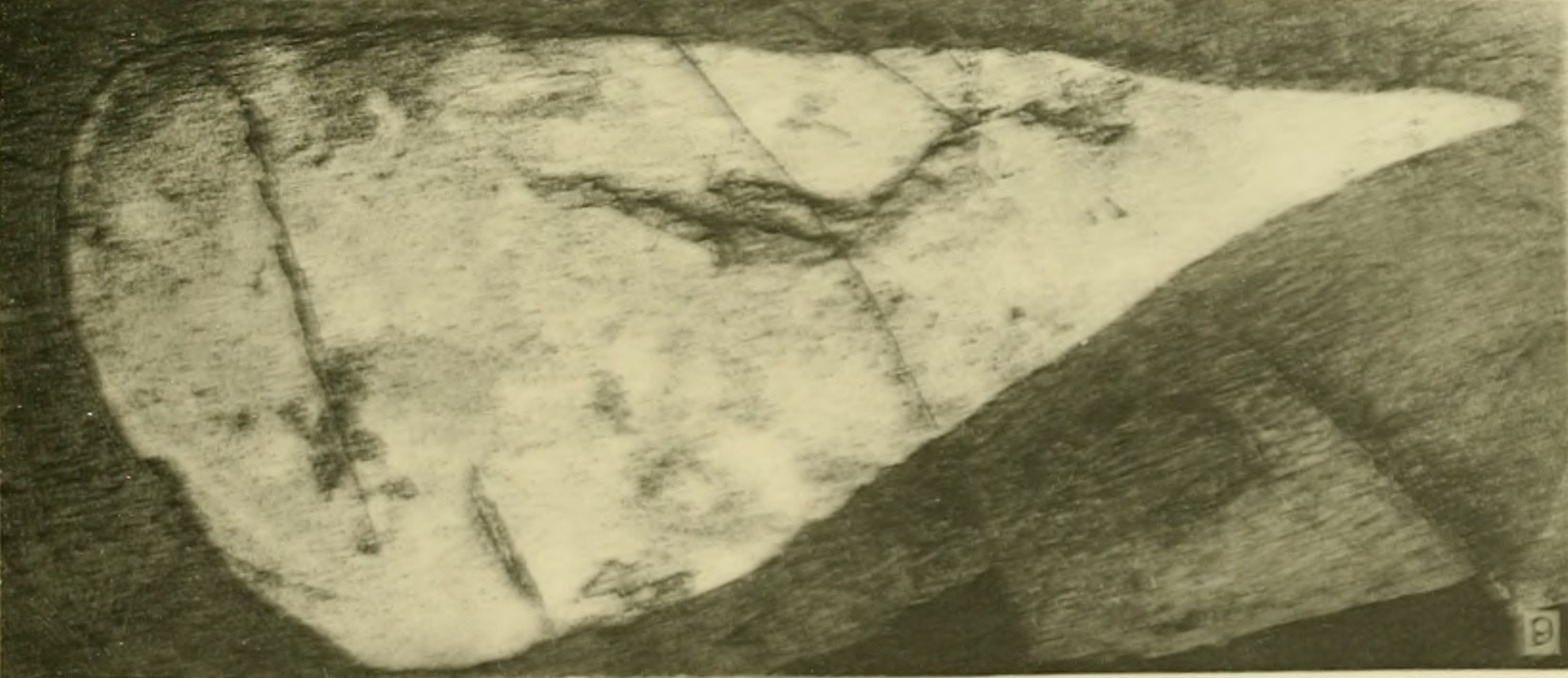 Holotype of Hurdia victoria Walcott, 1912 after Supporting Online Material for Daley, Budd, Caron, Edgecombe & Collins 2009